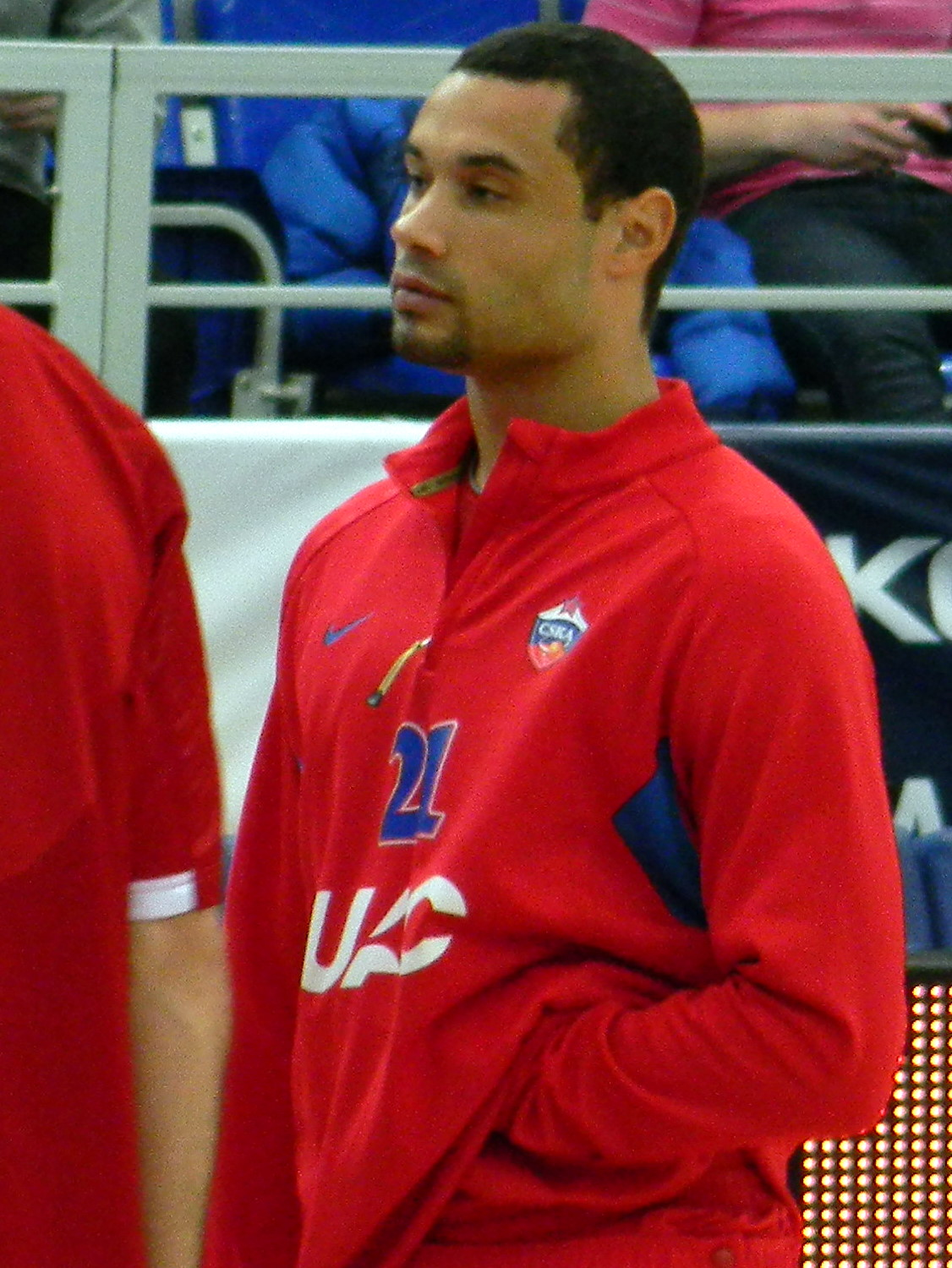 Trajan Langdon, american Basketball player, at all-star PBL game 2011